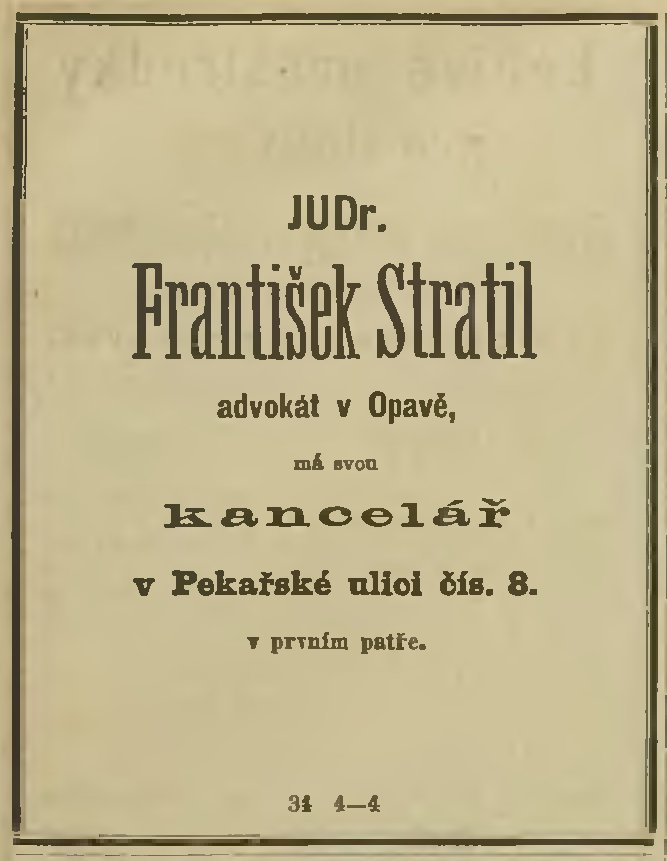 Self-published classified ad of František Stratil (1849-1911), attorney in Opava (present-day Czech Republic) shortly after his arrival in this city.